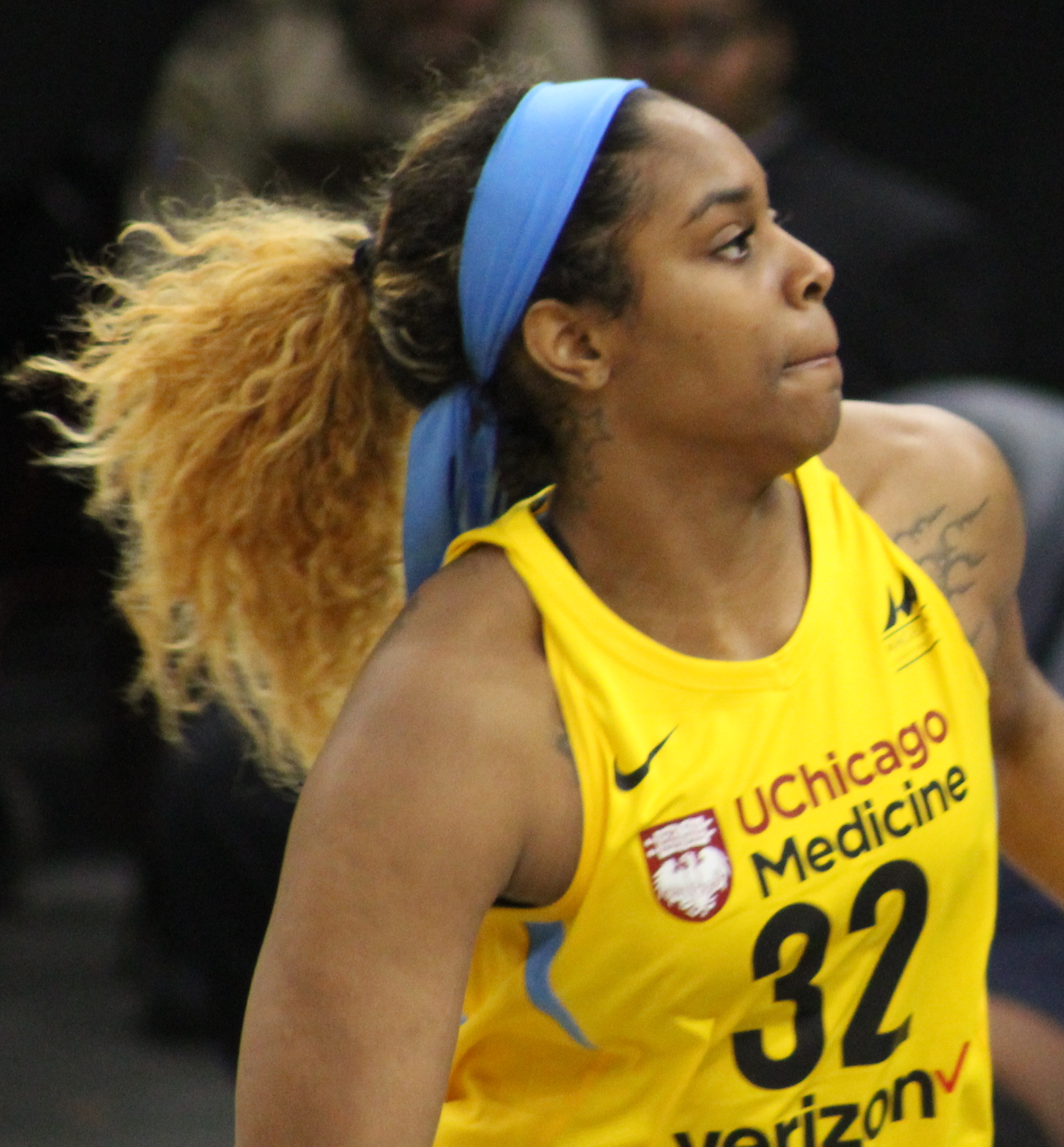 Cheyenne Parker of the Chicago Sky in a preseason game with the Minnesota Lynx